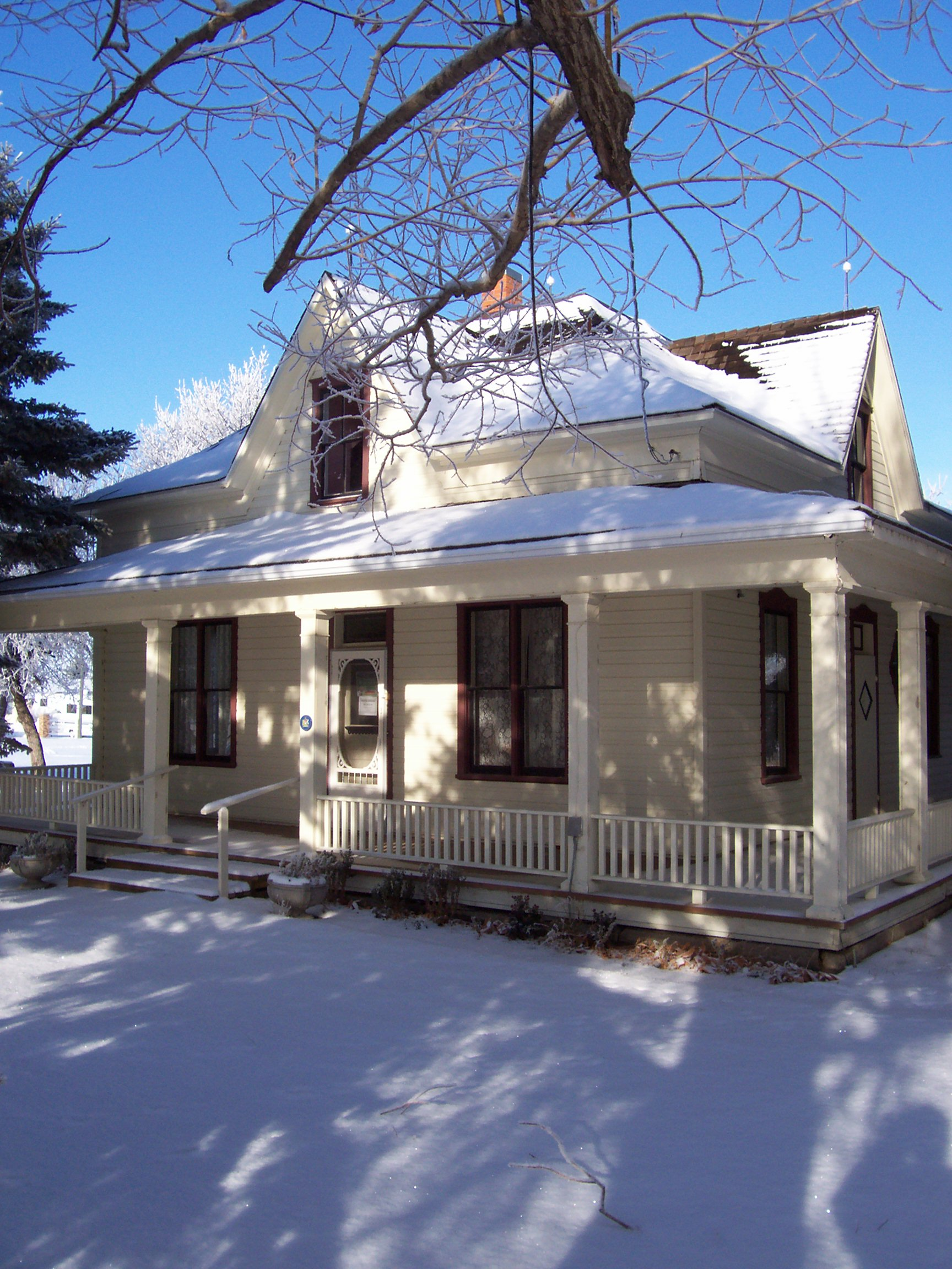 Category:Images of Alberta